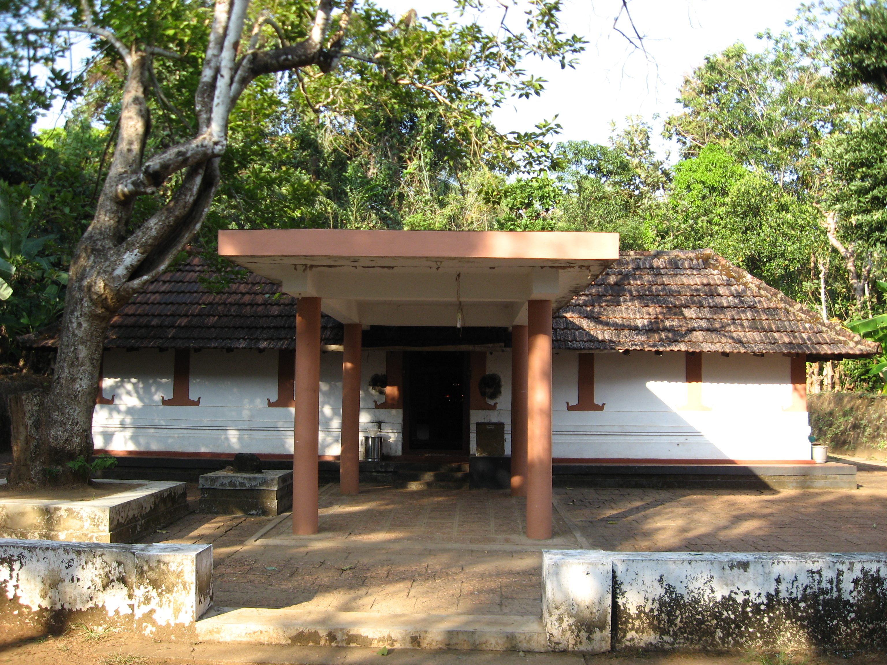 blathur temple,kerala,india